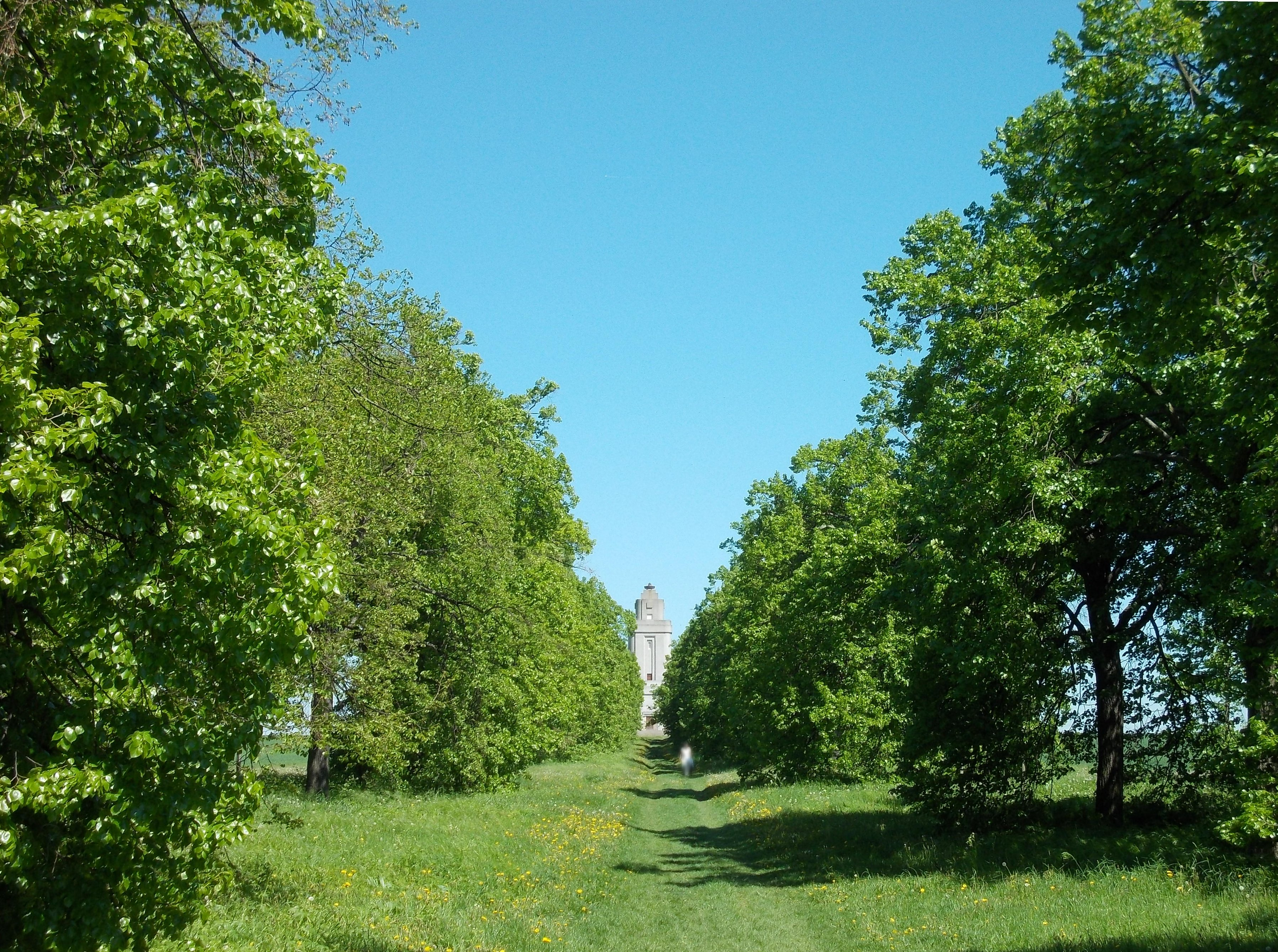 Crimean lime avenue leading to the Bismarck tower of Hänichen (Leipzig-Lützschena, Saxony)